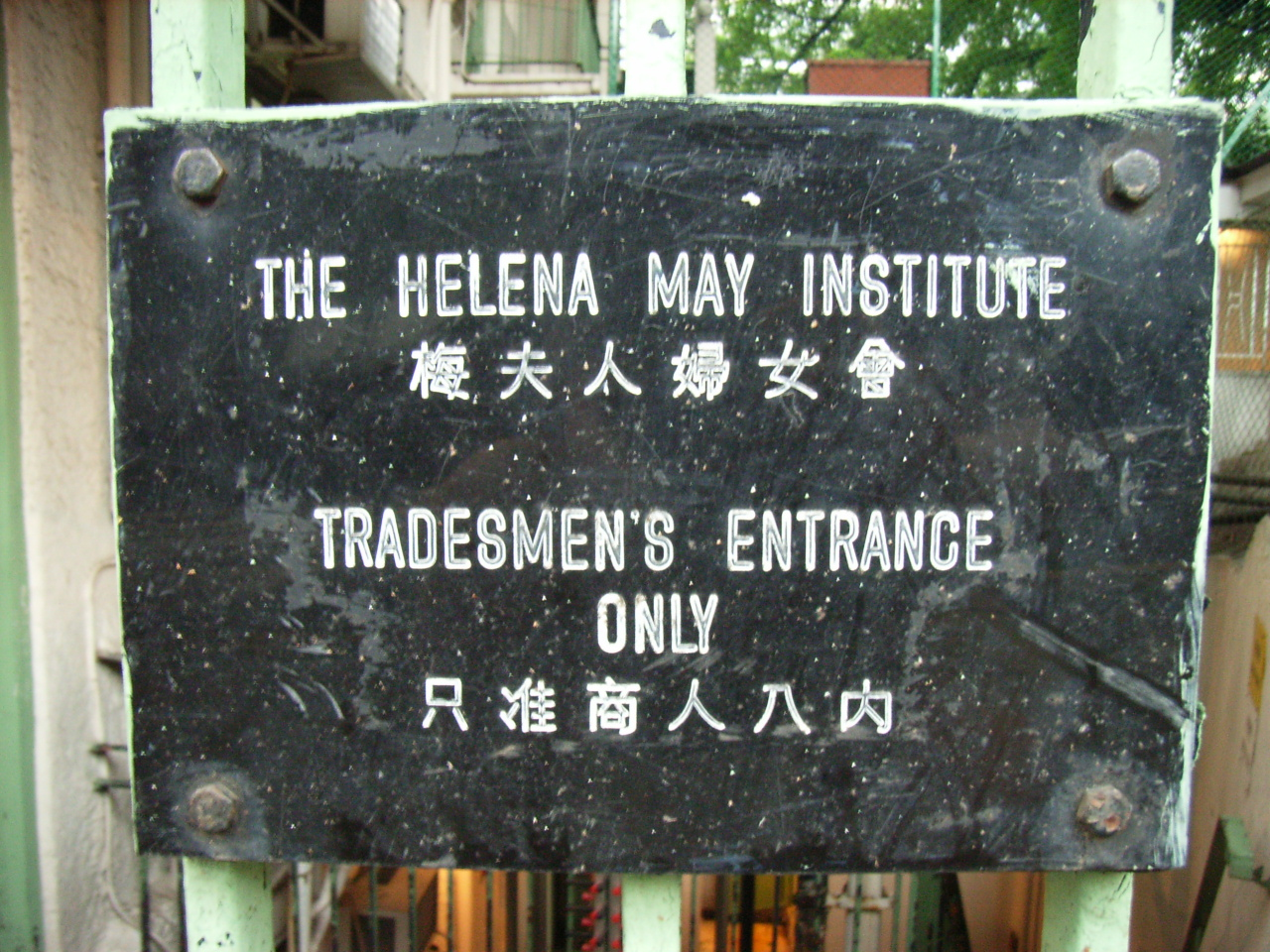 The Helena May Institute, No.35 Garden Road, Central, Hong Kong by TangHon